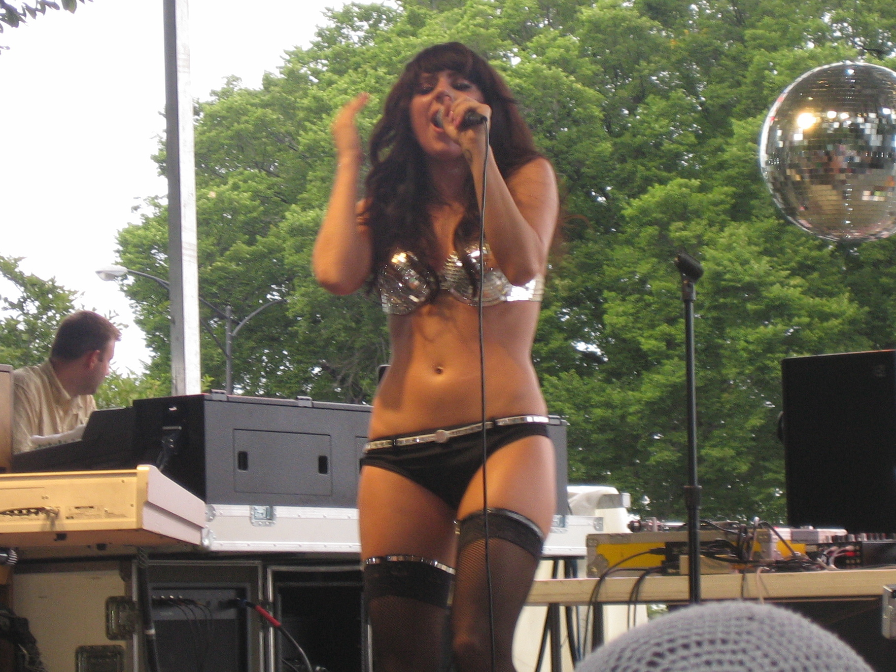 Lady Gaga at Lollapalooza, 2007.